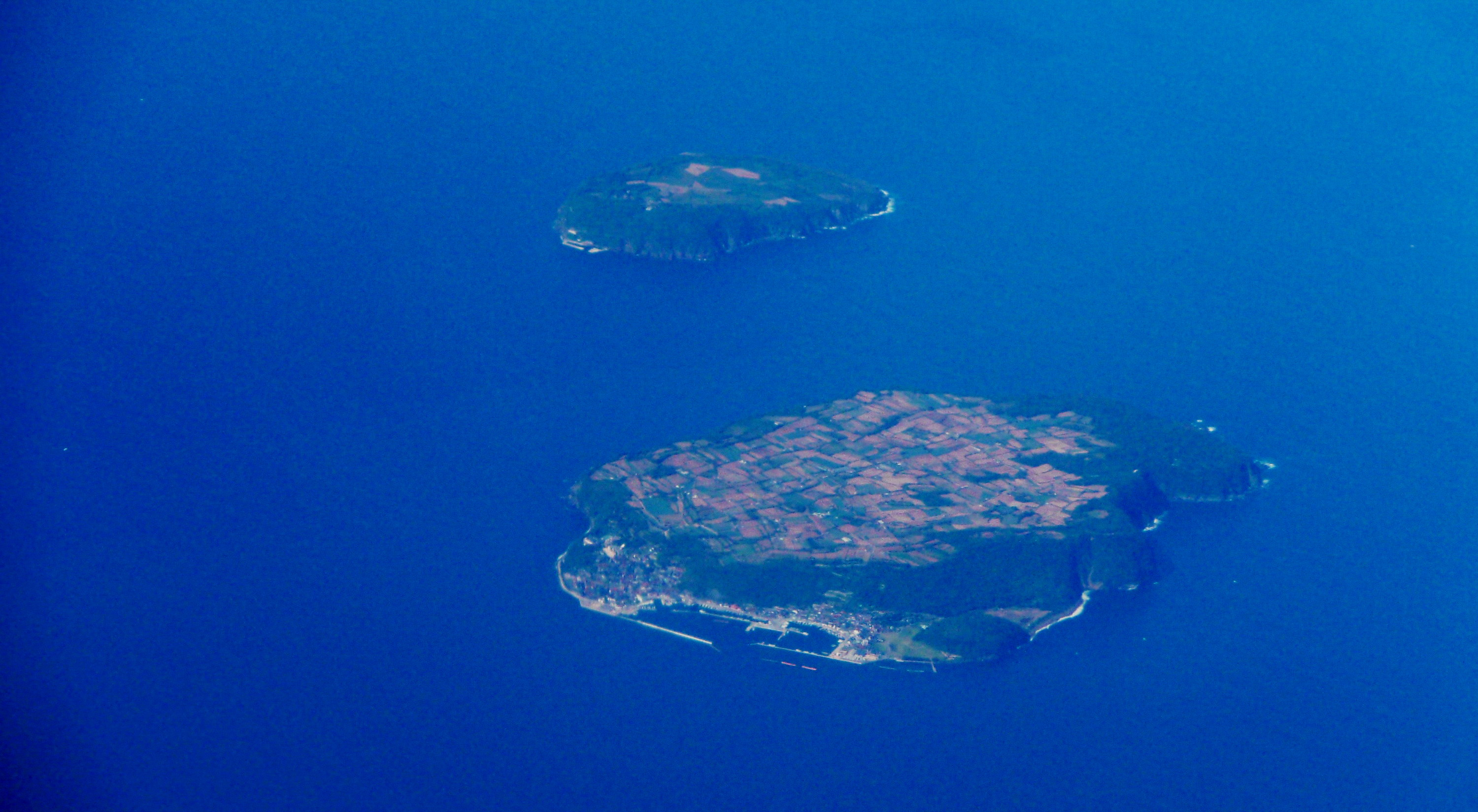 大島と櫃島「萩市」